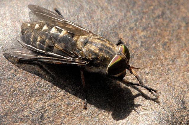 Tabanus autumnalis from Commanster, Belgian High Ardennes .